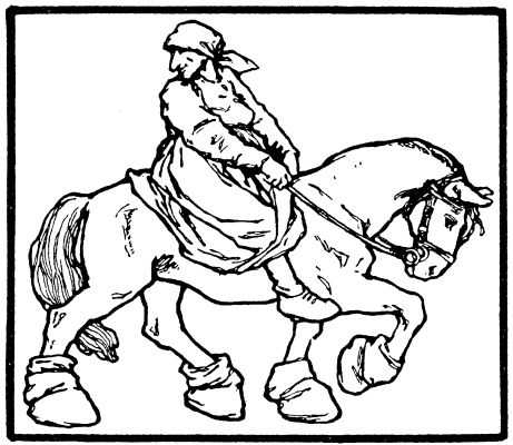 Illustration by Otto Ubbelohde to the fairy tale The Master Thief